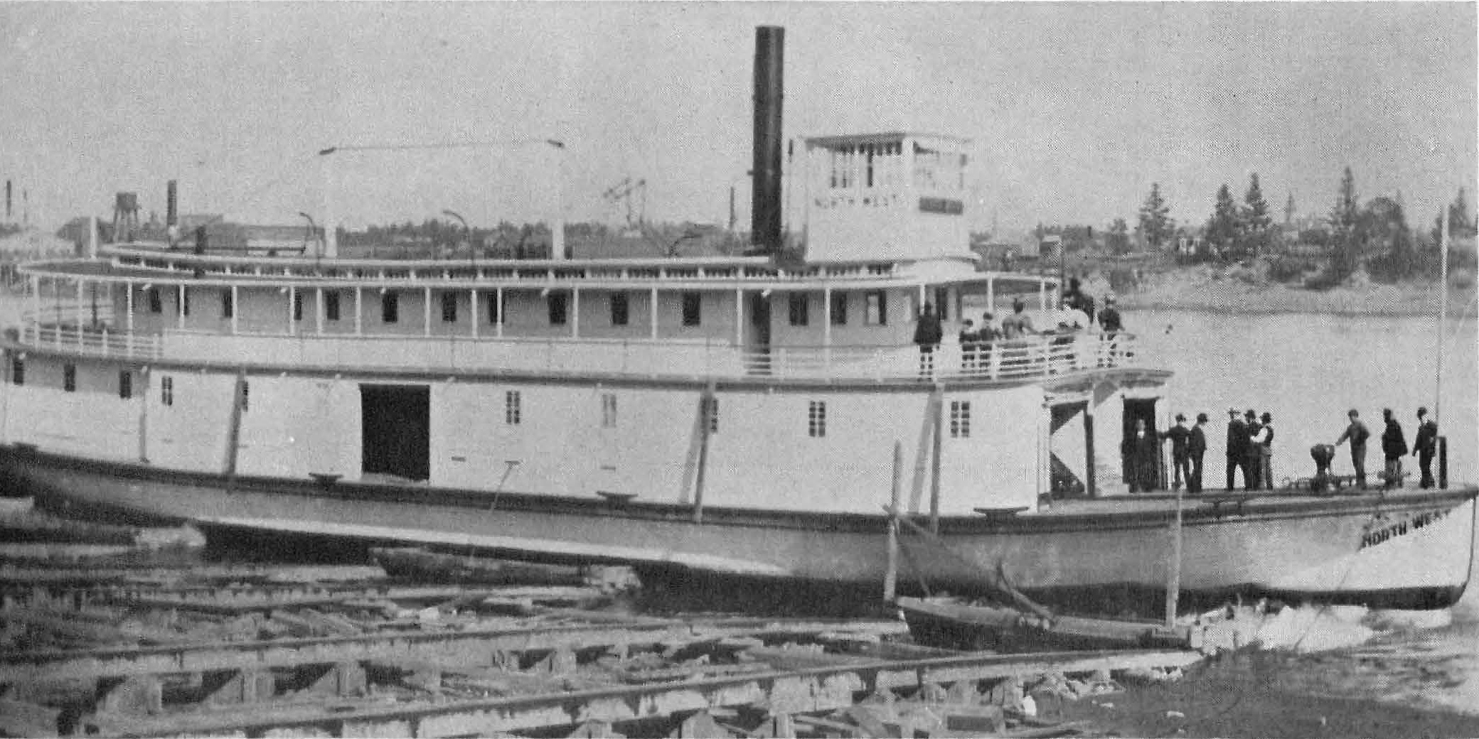 Launching of the steamer Northwest in Portland, Oregon in 1889.